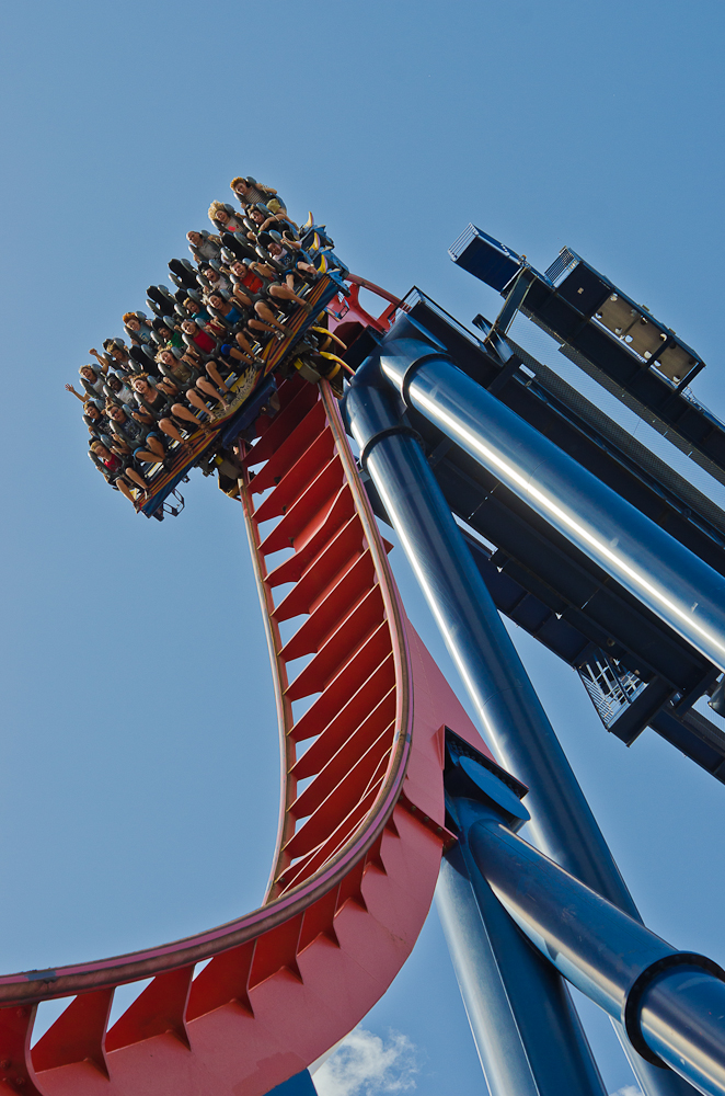 A floorless train of SheiKra on a drop